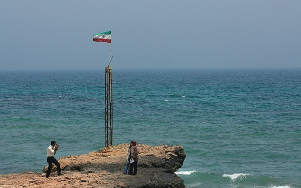 Abu Musa Island